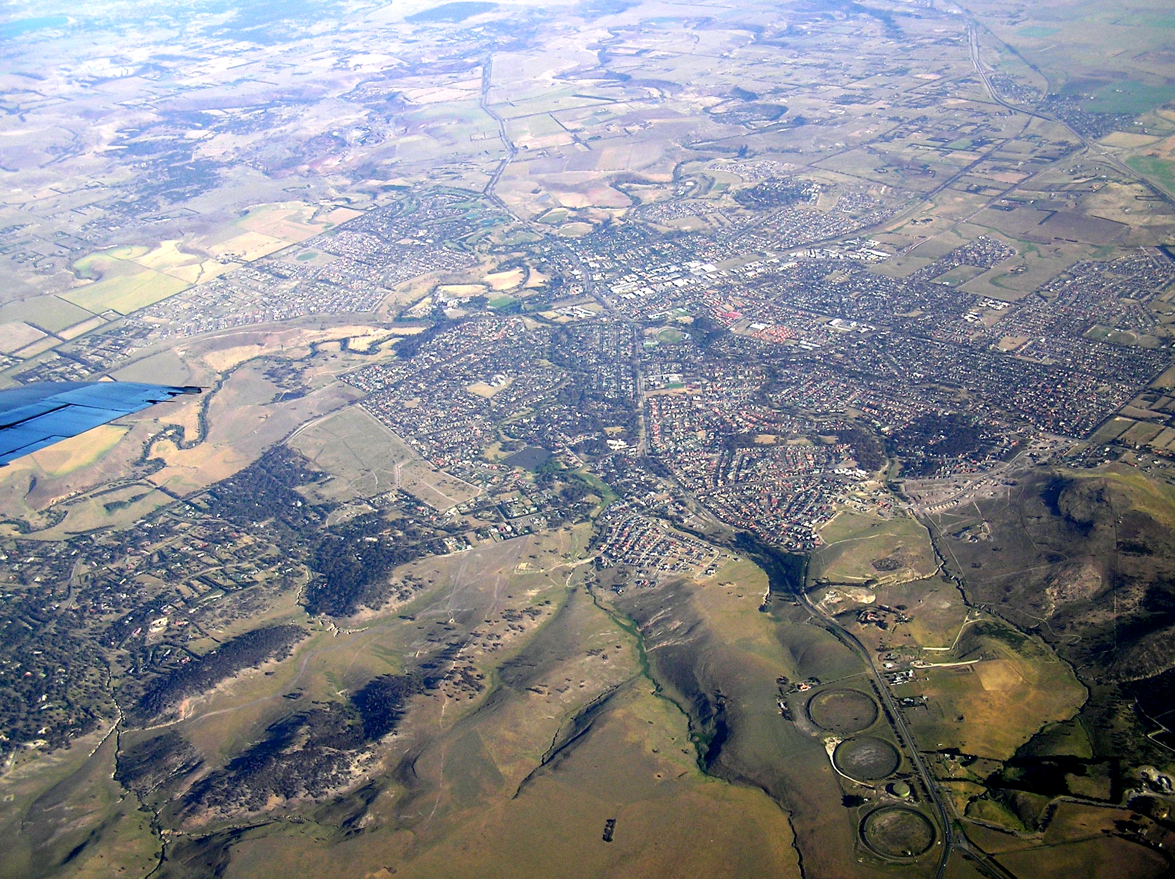 aerial photo of Sunbury Victoria from south west